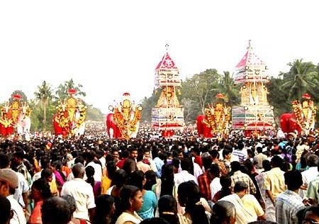 Peringanadu Temple kettukazha